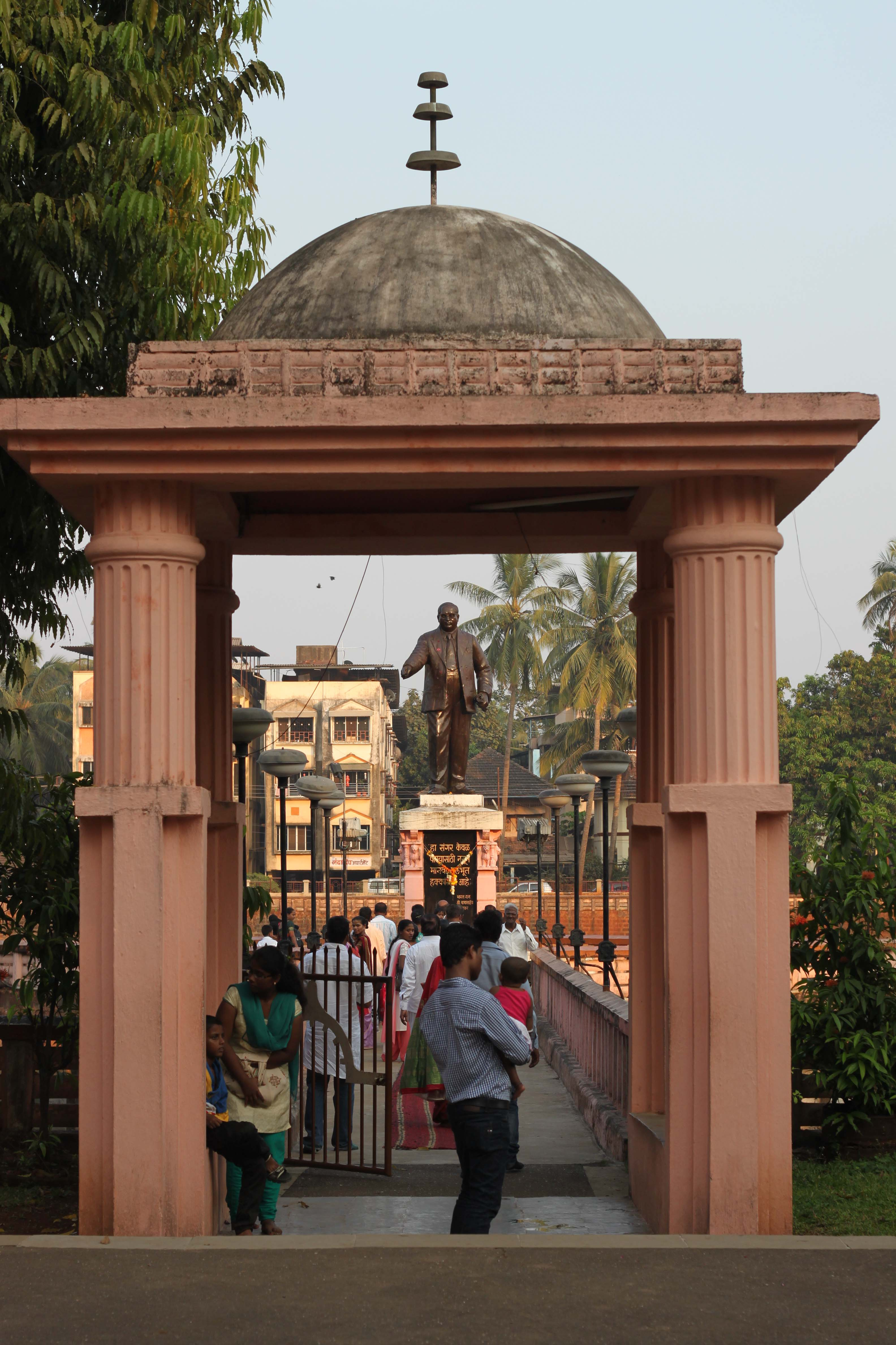 Mahad is considered as Land of Freedom Fighters and many revolutionary freedom moments of India are occurred here. It is famous for the Drinking Water Satyagraha of Dr. Babasaheb Ambedkar for Dalits at Chavdar Tale,which played as turning point in Indian sociopolitical history.